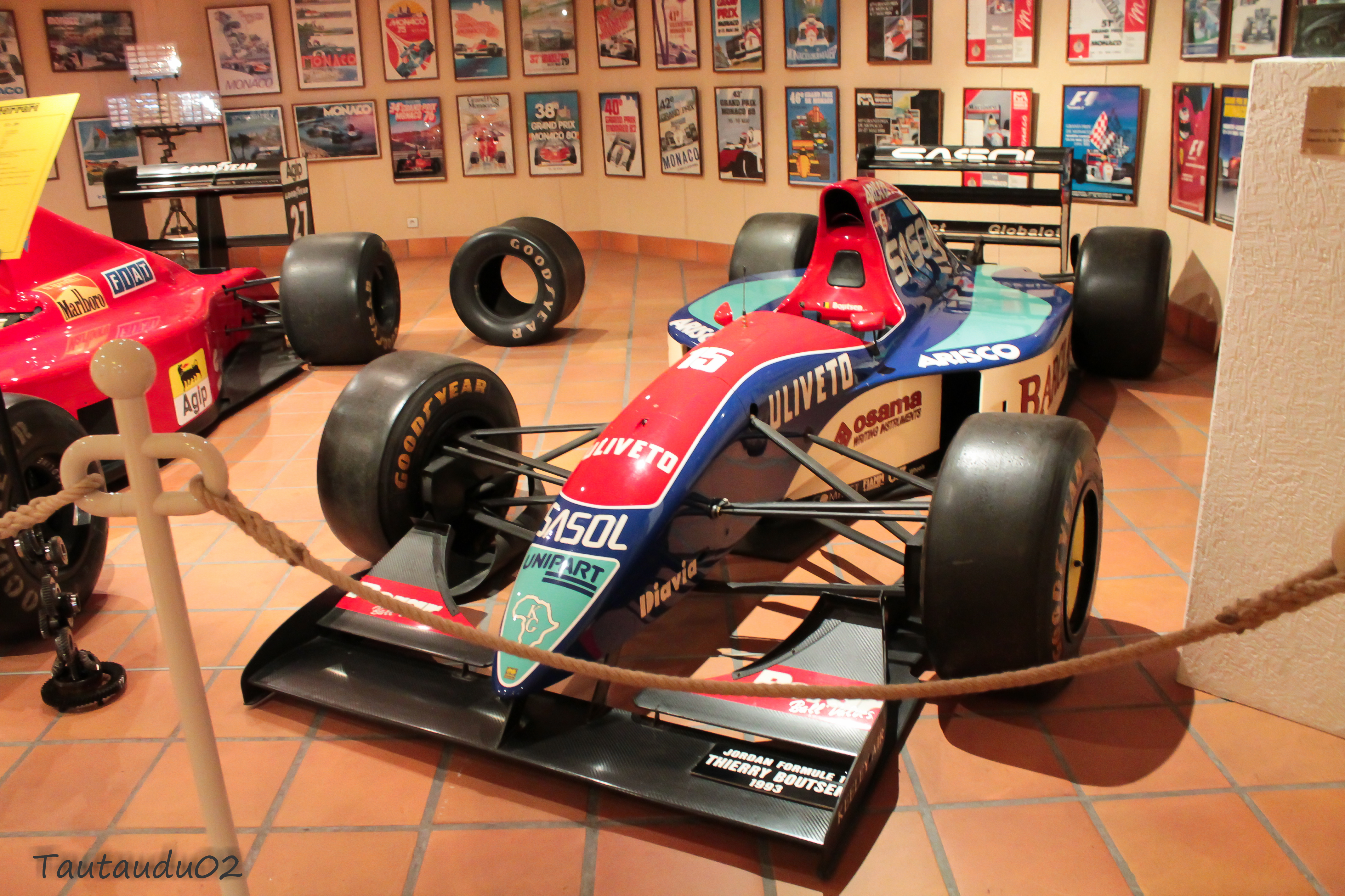 Thierry Boutsen's Jordan 193 on display at the Automobile Museum in Monaco